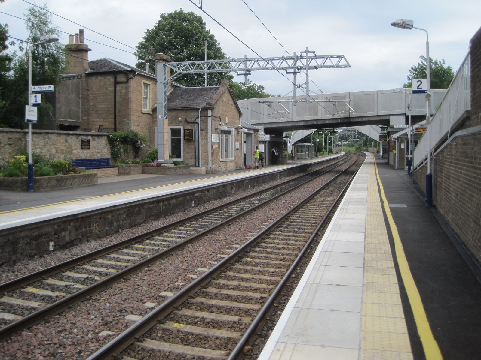 Polmont railway station, Stirlingshire